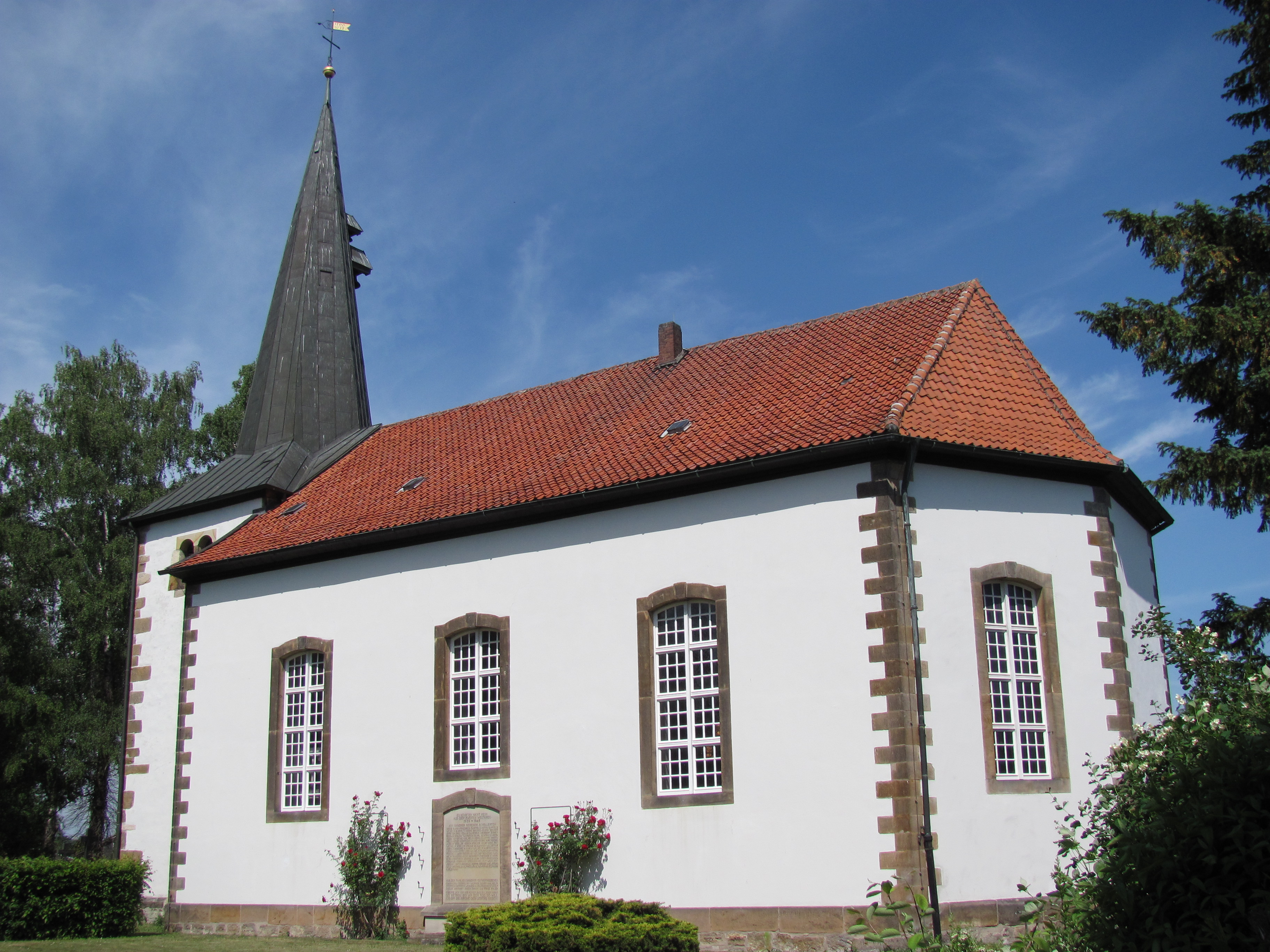 Protestant Church, Schellerten, Lower Saxony, Germany